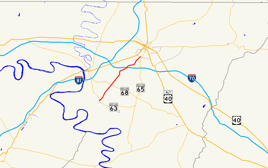 Map of Maryland Route 632